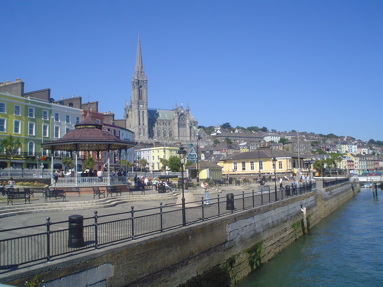 Cobh town landscape